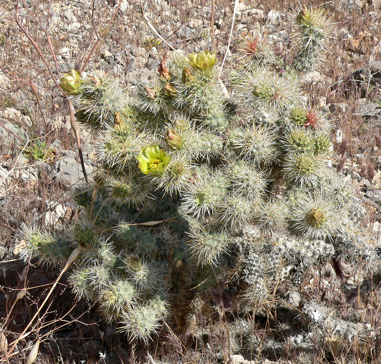 Photo of Cylindropuntia echinocarpa (golden or silver cholla) in the desert at the west end of Cheyenne Ave, Las Vegas, Nevada (Lone Mountain area)